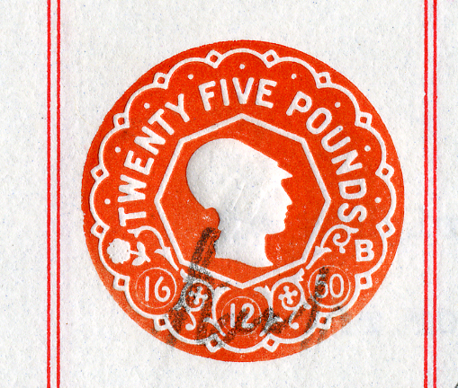 £25 (twenty-five pounds) fiscal stamp from a house deed.